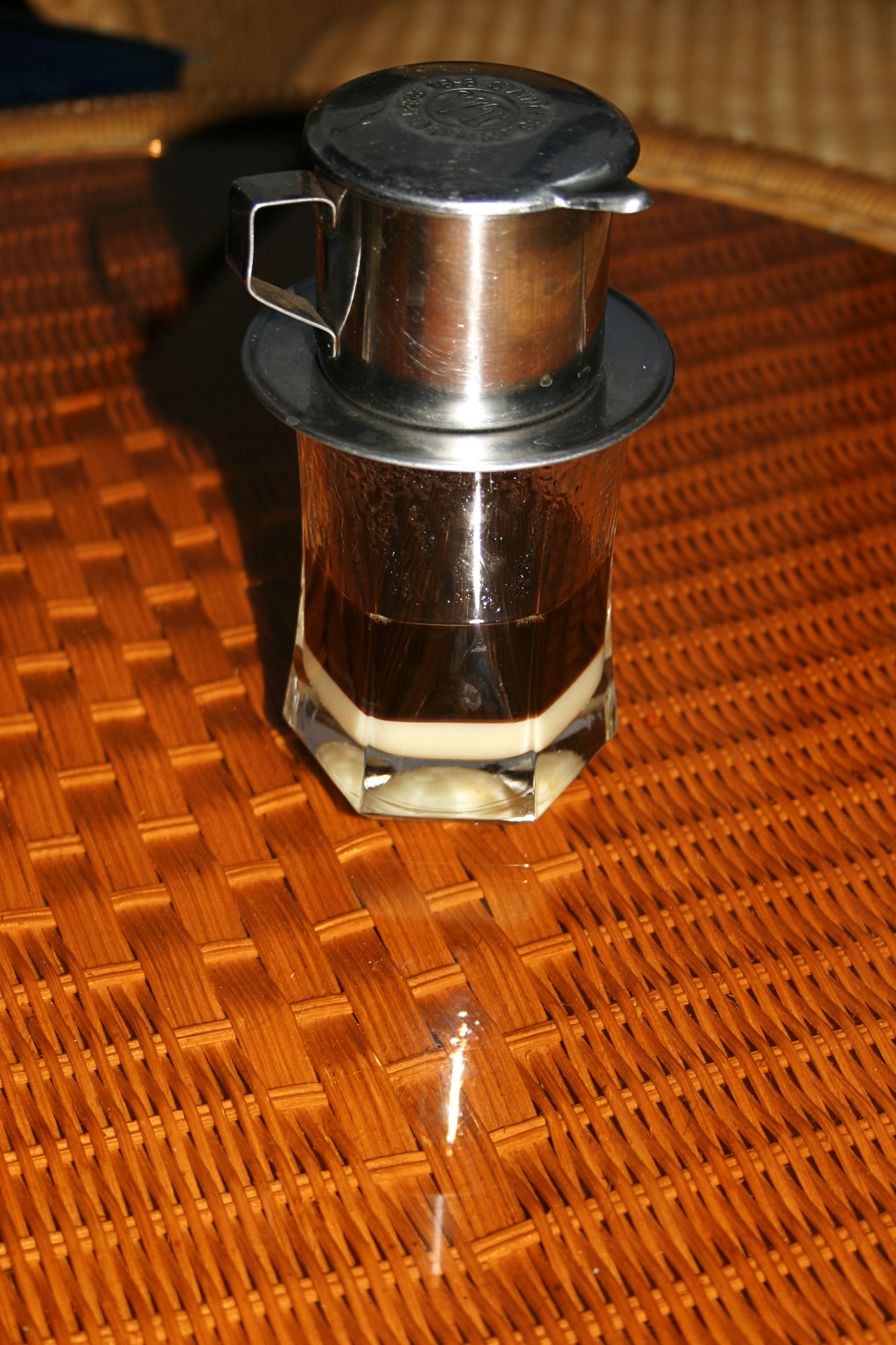 Coffee in Vietnam, the very popular way to make a cup of coffee.